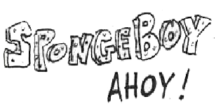 SpongeBoy Ahoy! logo (logo for the SpongeBob SquarePants concept)